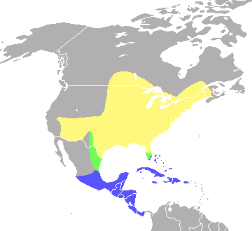 Range map of the Indigo Bunting, Passerina cyanea, based on the map at Nature [1] and the map in A Field Guide to the Birds East of the Rockies by Roger Tory Peterson. Cropped version. Yellow indicates summer range, green indicates migratory range, blue indicates winter range